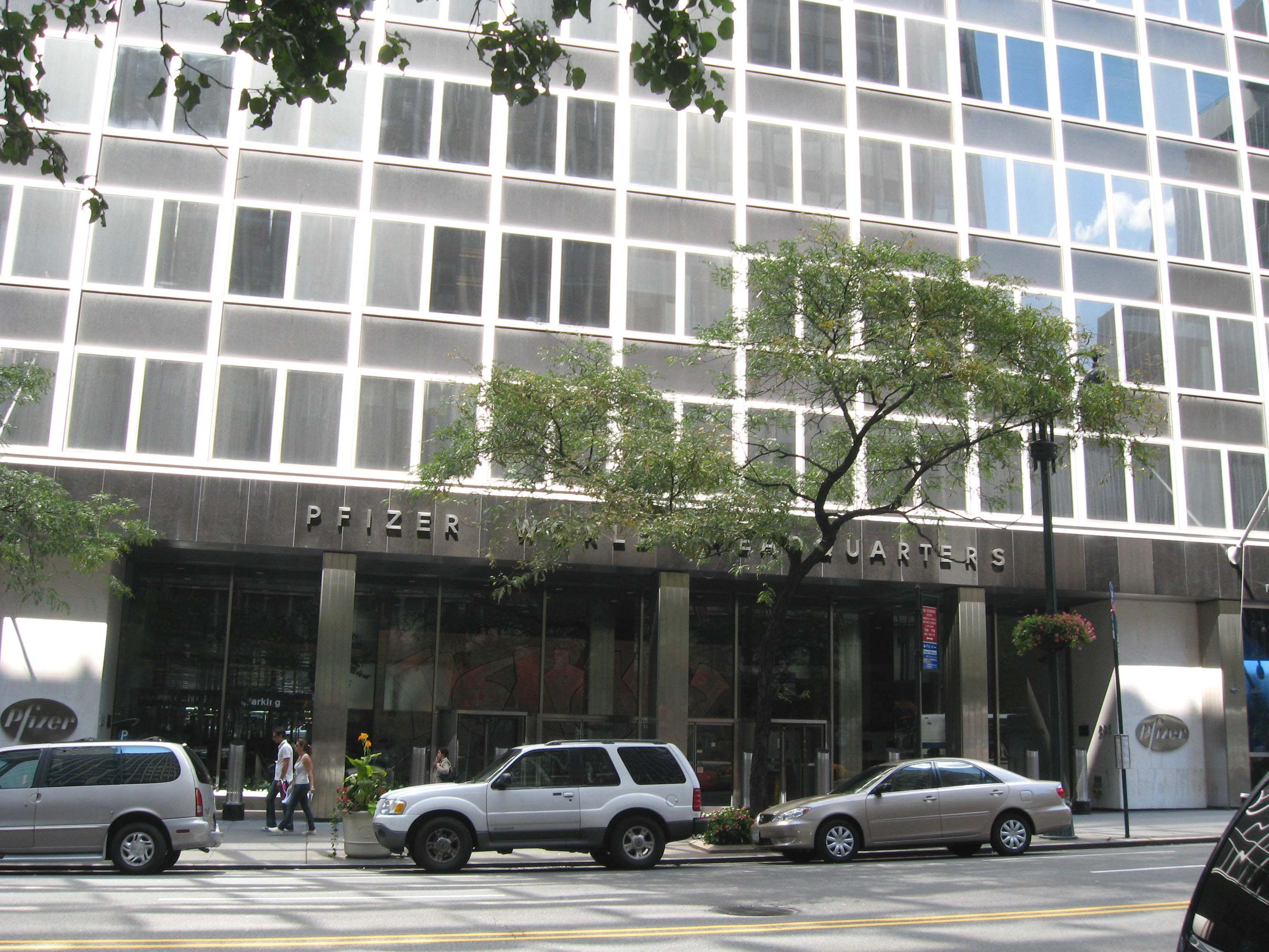 Looking northeast across 42nd St at Phizer world headquarters.